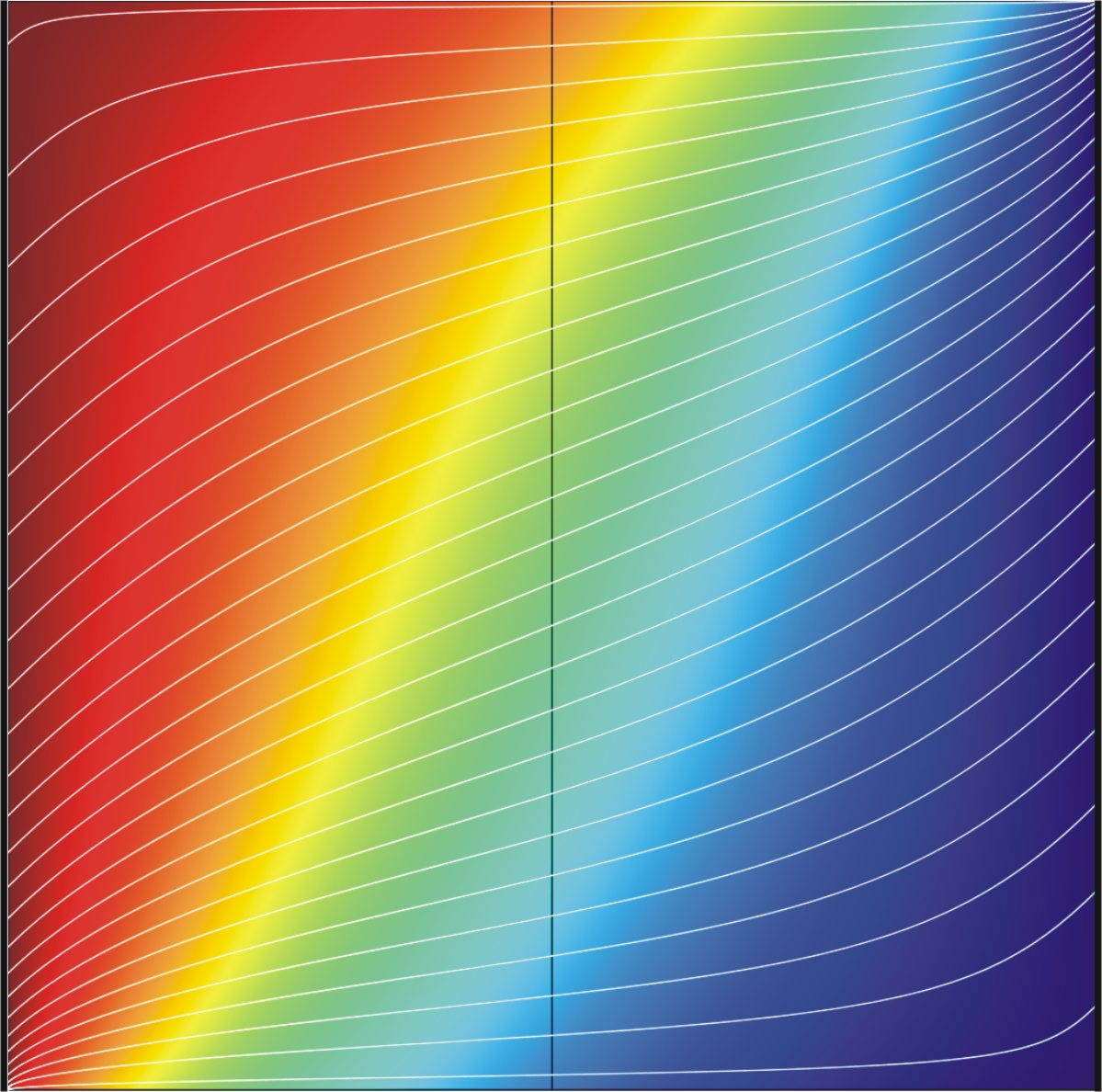 GEMR streamlines.Geometrical magnetoresistance in a square sample. Distribution of the potential and current.